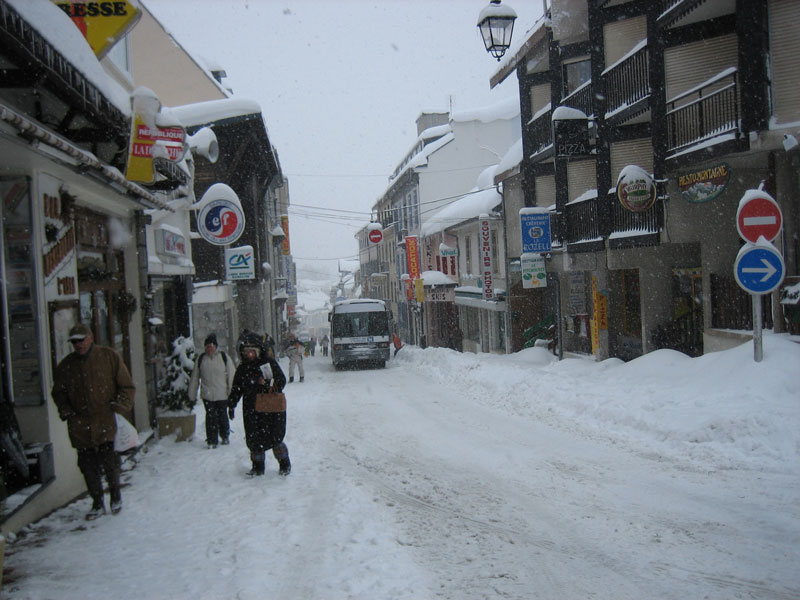 Main street of Barèges in winter, part of the ski resort Barèges - La Mongie Hoofdstraat van Barèges in de winter, deel van het wintersport gebied Barèges - La Mongie